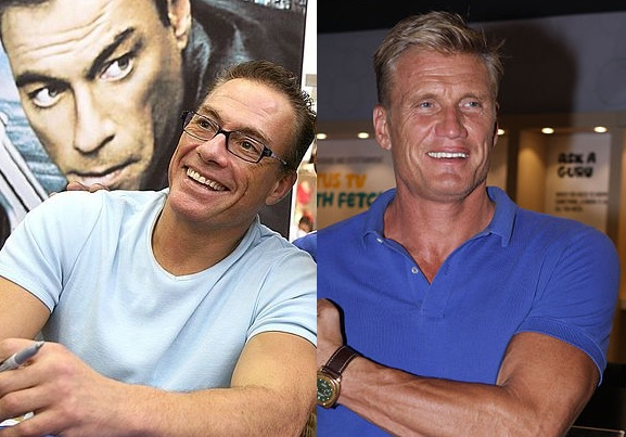 This is an template featuring two images; the left shows actor Jean Claude Van Damme (and was published under the Creative Commons Attribution-Share Alike 2.0 Generic licence), while the right shows actor Dolph Lundgren (and was published in the public domain).